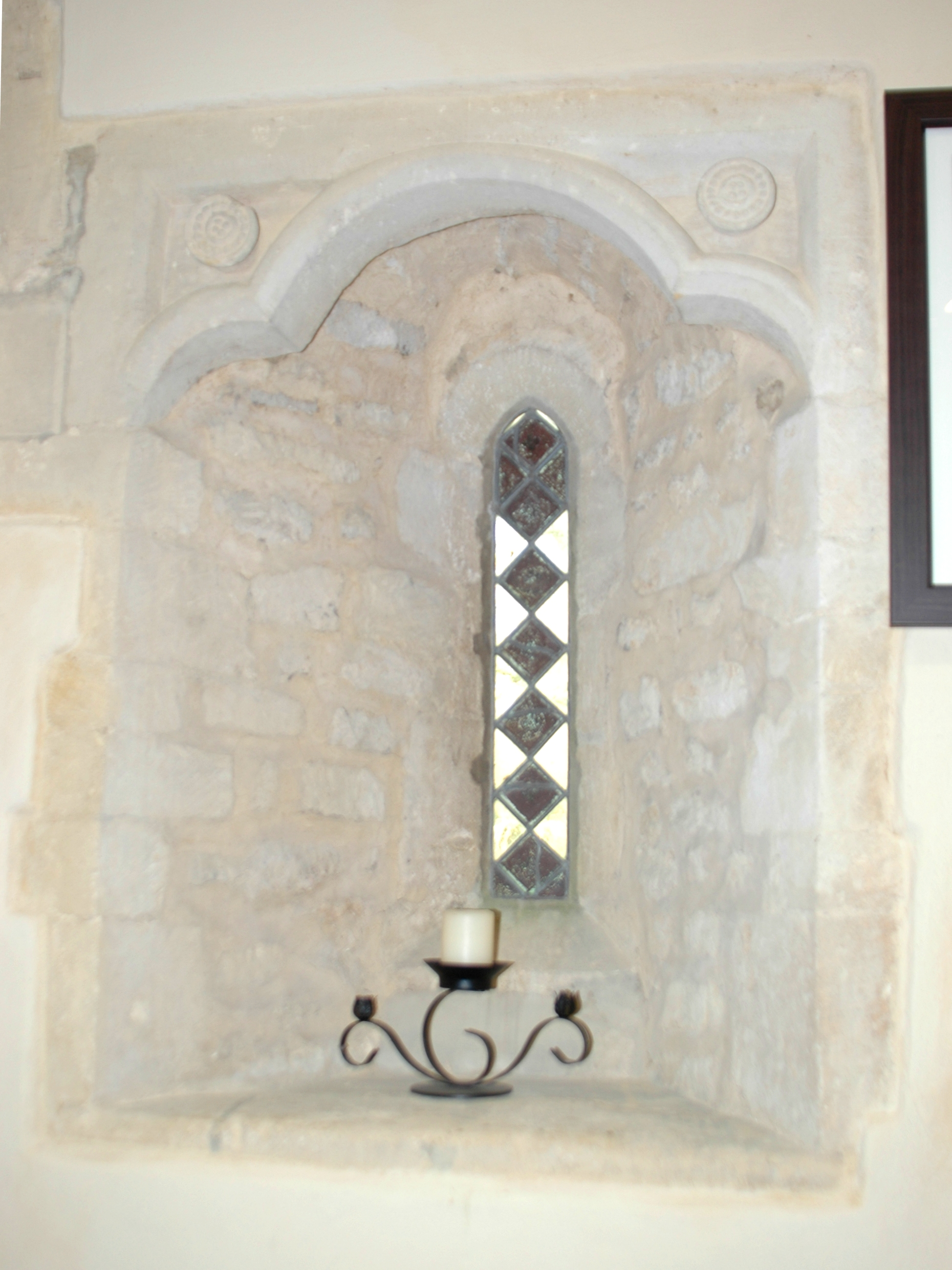 13th century lancet window with 16th or 17th century cusped rere-arch in the north aisle of St Nicholas' parish church, Ickford, Buckinghamshire